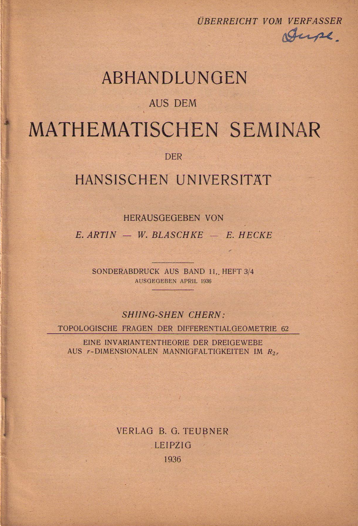 Scan of title page of special print-out from the mathematical journal in 1936, Abhandlungen aus dem Mathematischen Seminar der Hansischen Universität (probably aka Abhandlungen aus dem Mathematischen Seminar der Universität Hamburg).